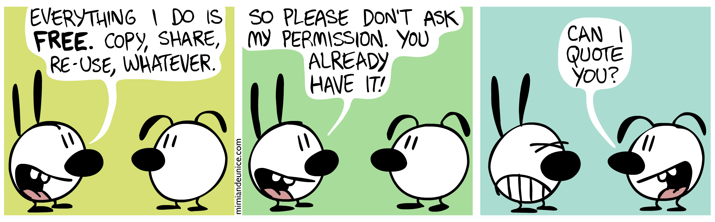 Mimi & Eunice, #442: “Permission”. Transcript: Mimi: Everything I do is free. Copy, share, re‐use, whatever. Mimi: So please don’t ask my permission. You already have it! Eunice: Can I quote you? Caption: Our pervasive permission culture.